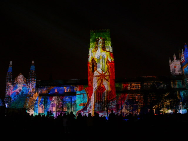 Durham Catedral-Lumiere 2015